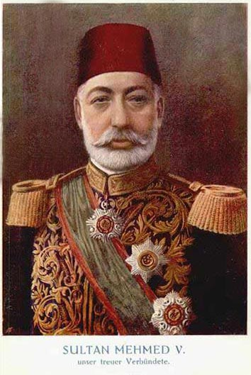 Postcard of Germany with Sultan of Ottoman empire Mehmed V, 1917